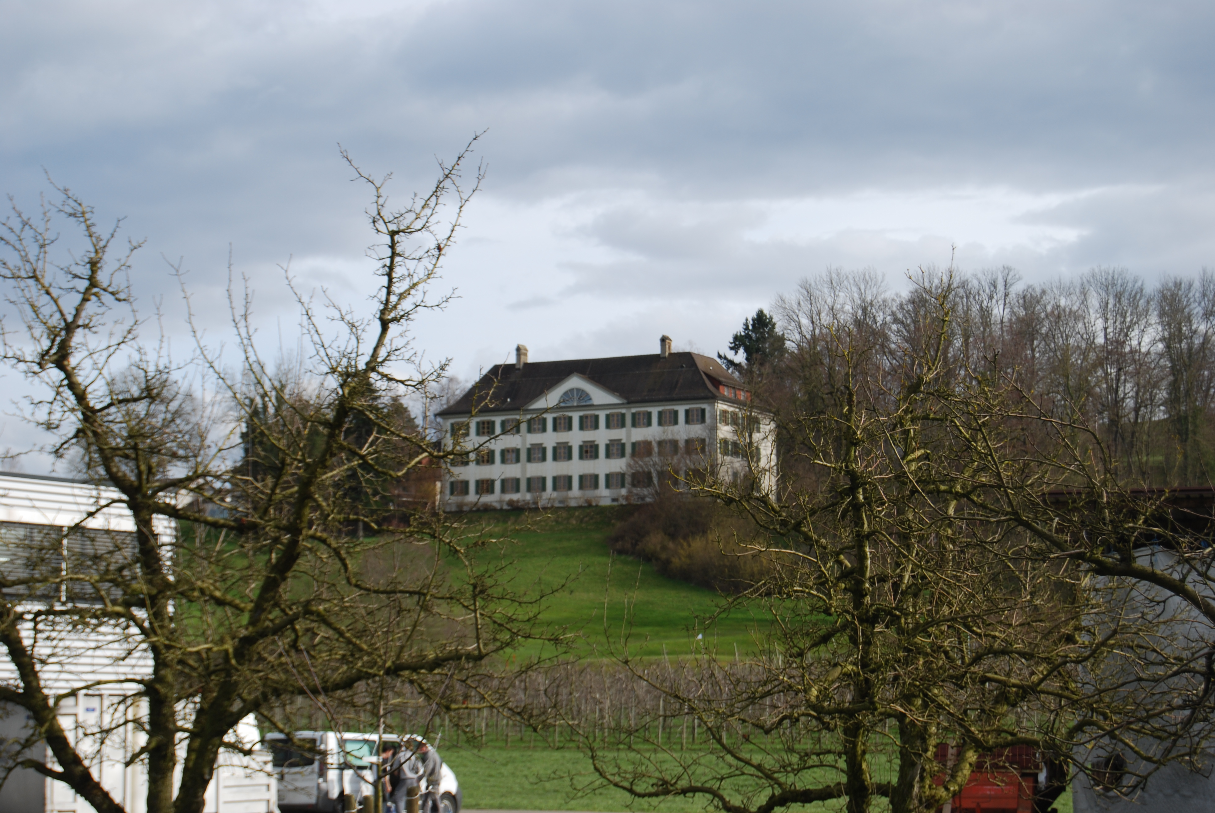 Castle Eppishausen, canton of Thurgovia, Switzerland